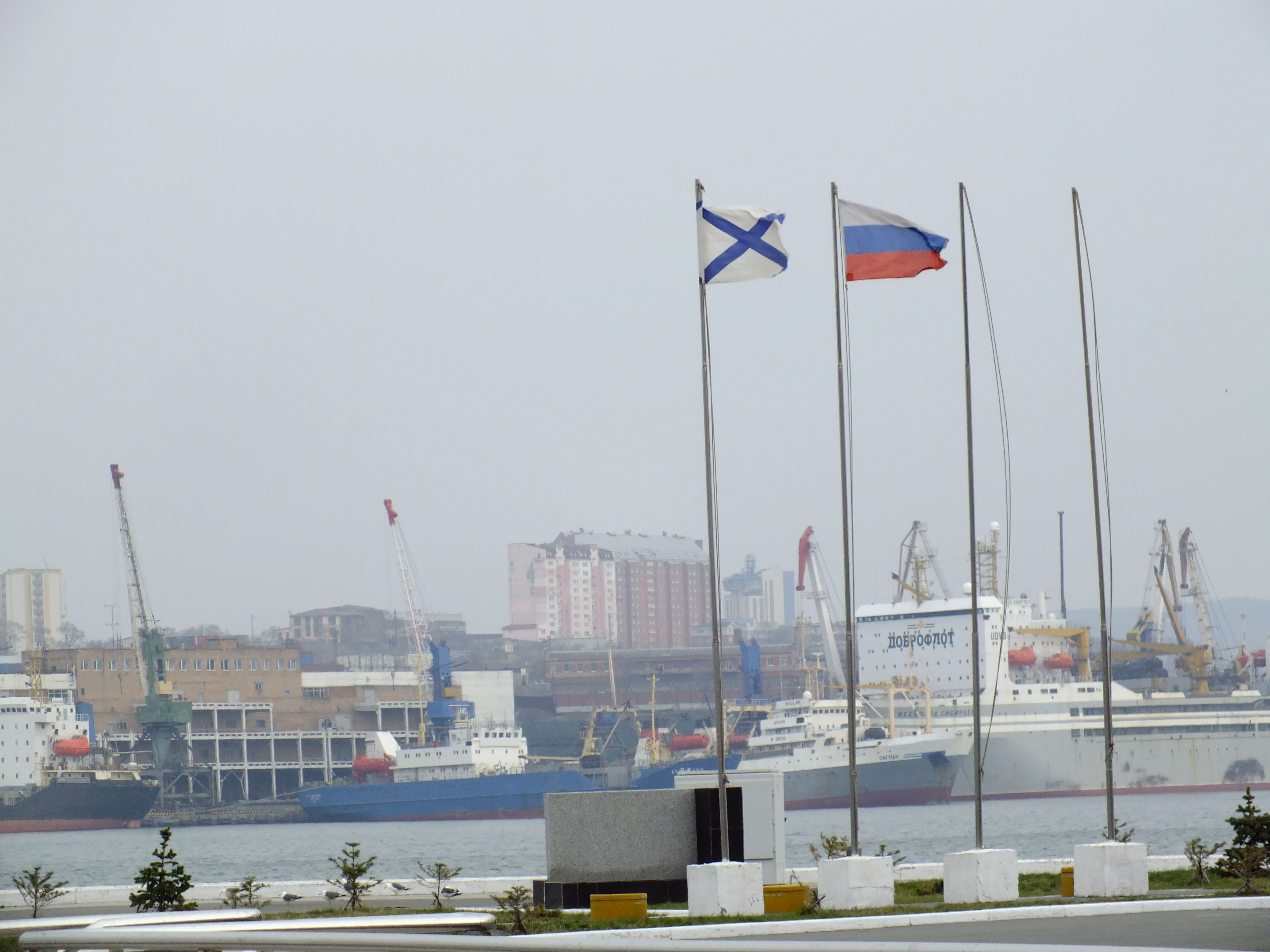 Pacific fleet of Russia